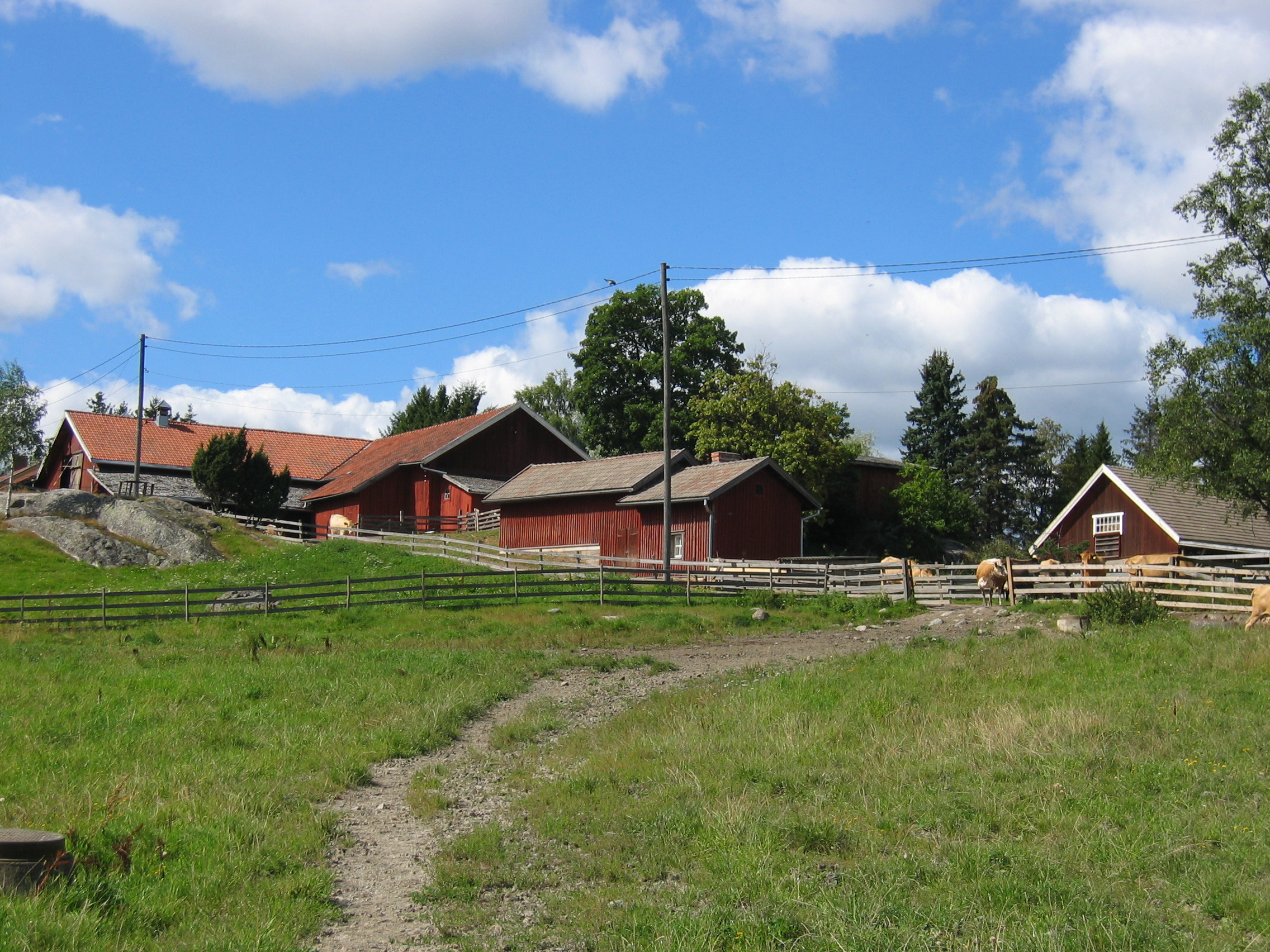 Kuralan kylämäki museum in Turku, Finland